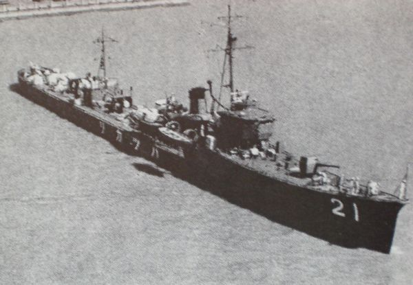 IJN Chidori class Hatsukari